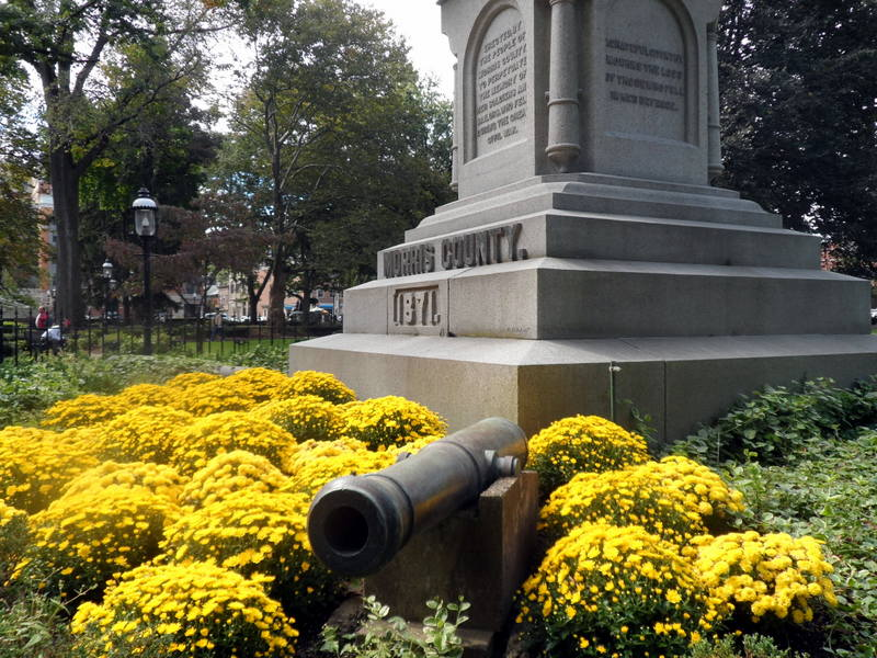 Morristown District